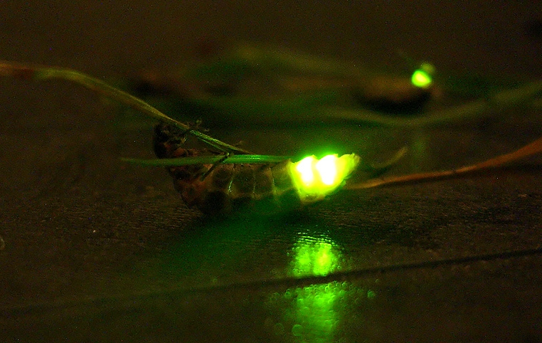 Glow worm. Photograph taken in the Dutch dunes on a muggy, foggy and windless evening.